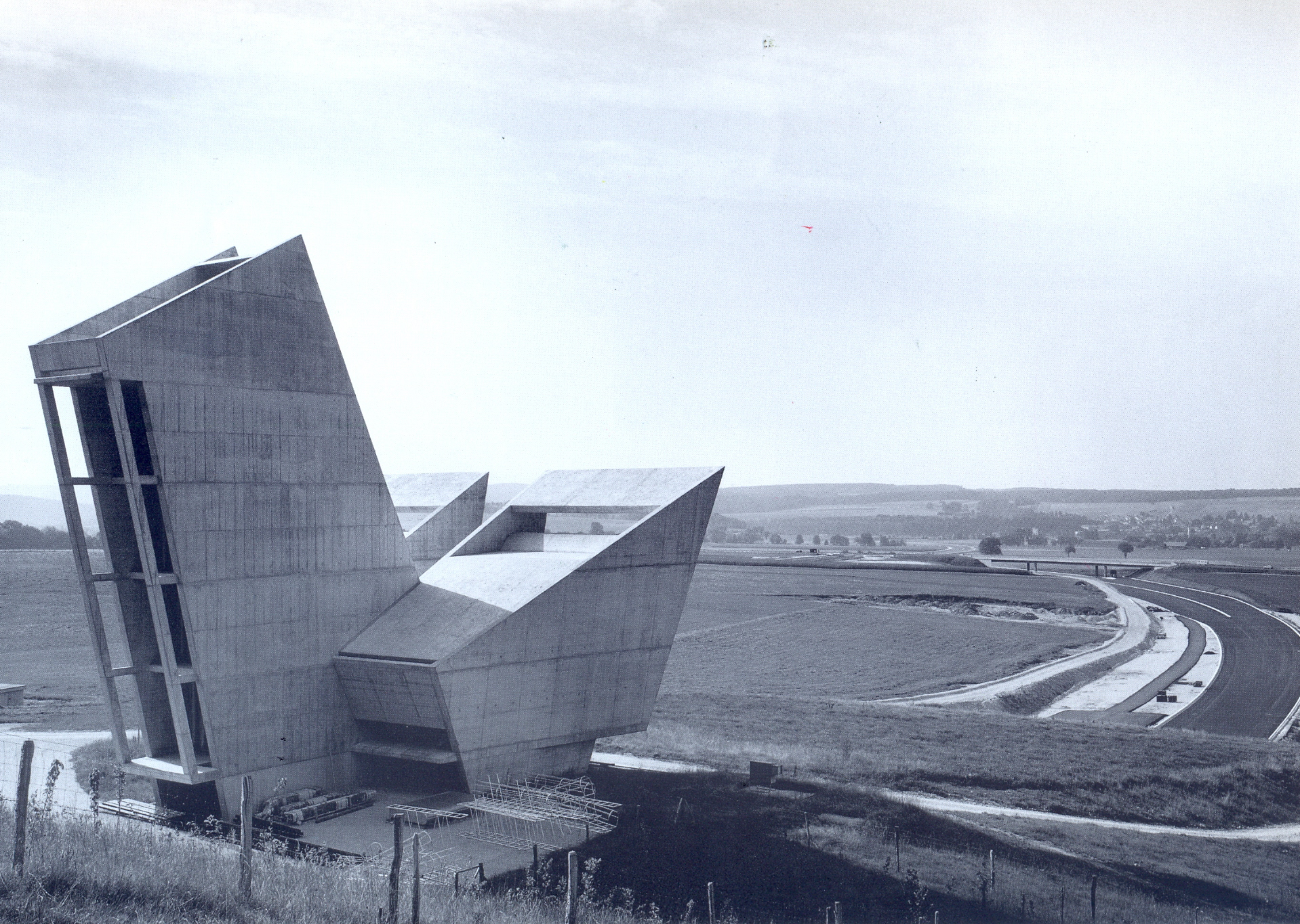 architecture by di Flora Ruchat